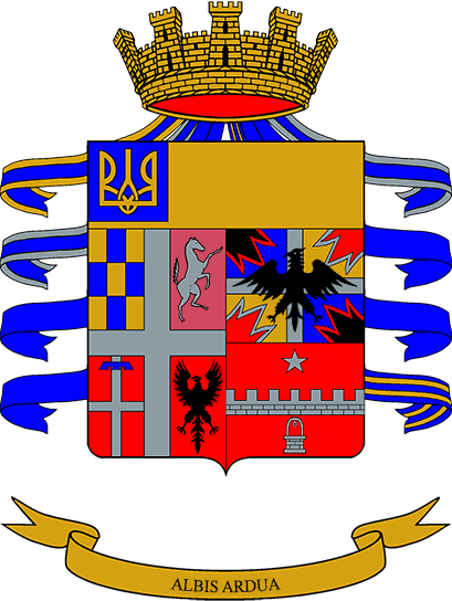 Coat of Arms of the 5° Cavalry Regiment; Italian Army.